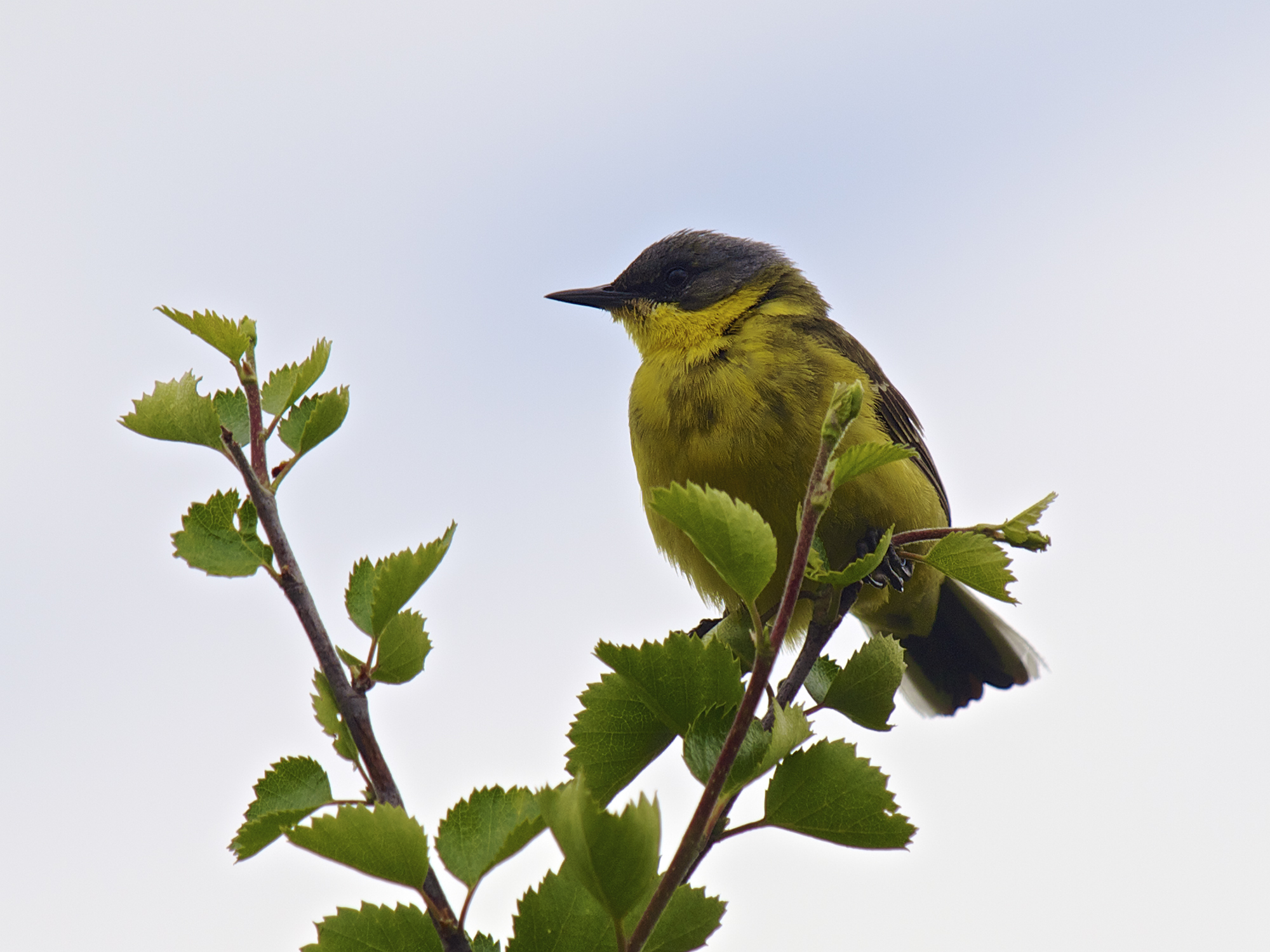 Male Western Yellow Wagtail (Dark-headed Wagtail, Motacilla flava thunbergi), Grimsdalen, Rondane National Park, Norway